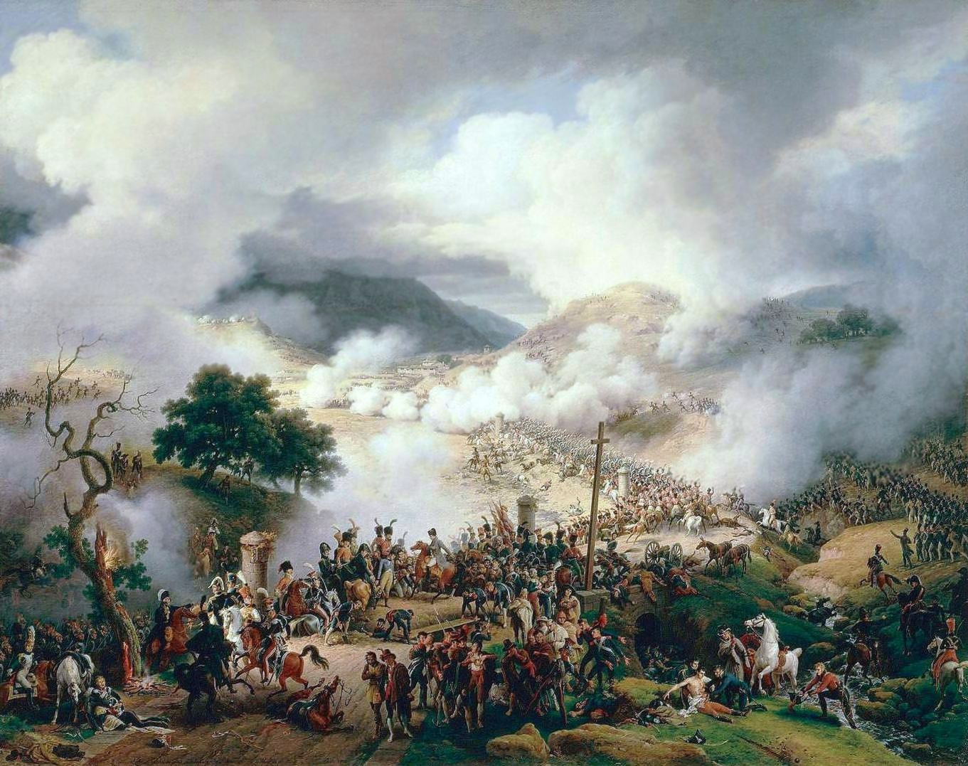 Battle of Somosierra 1808